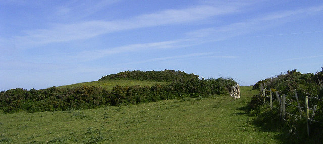 Cairn Circle (The Druid's Circle) at Orrisdale. Also known as Cronk Bane y Bill Willy (Bill Willy's White Hill), this is the remains of a kerbed cairn of the Bronze Age. The white quartz boulders are unfoirtunately completely enveloped by gorse. To the right, being used as a gatepost, is another late white quartz boulder.